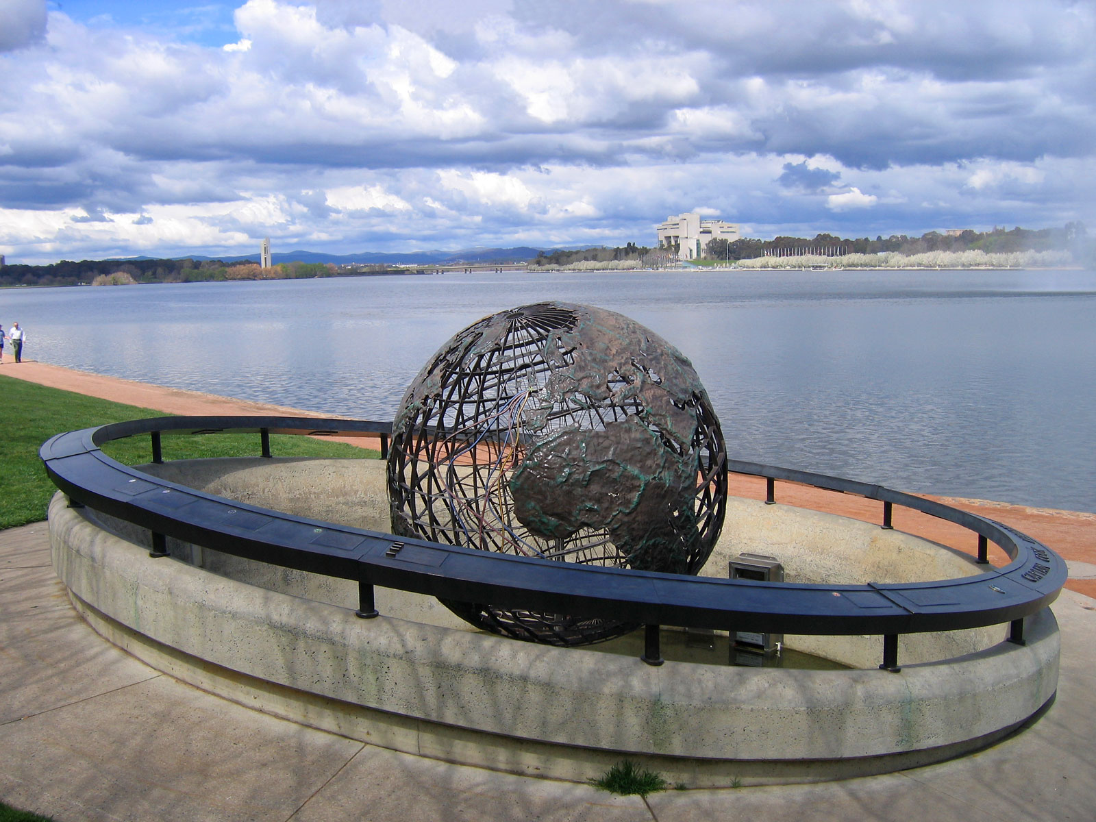 Captain James Cook Memorial Globe and High Court, Canberra